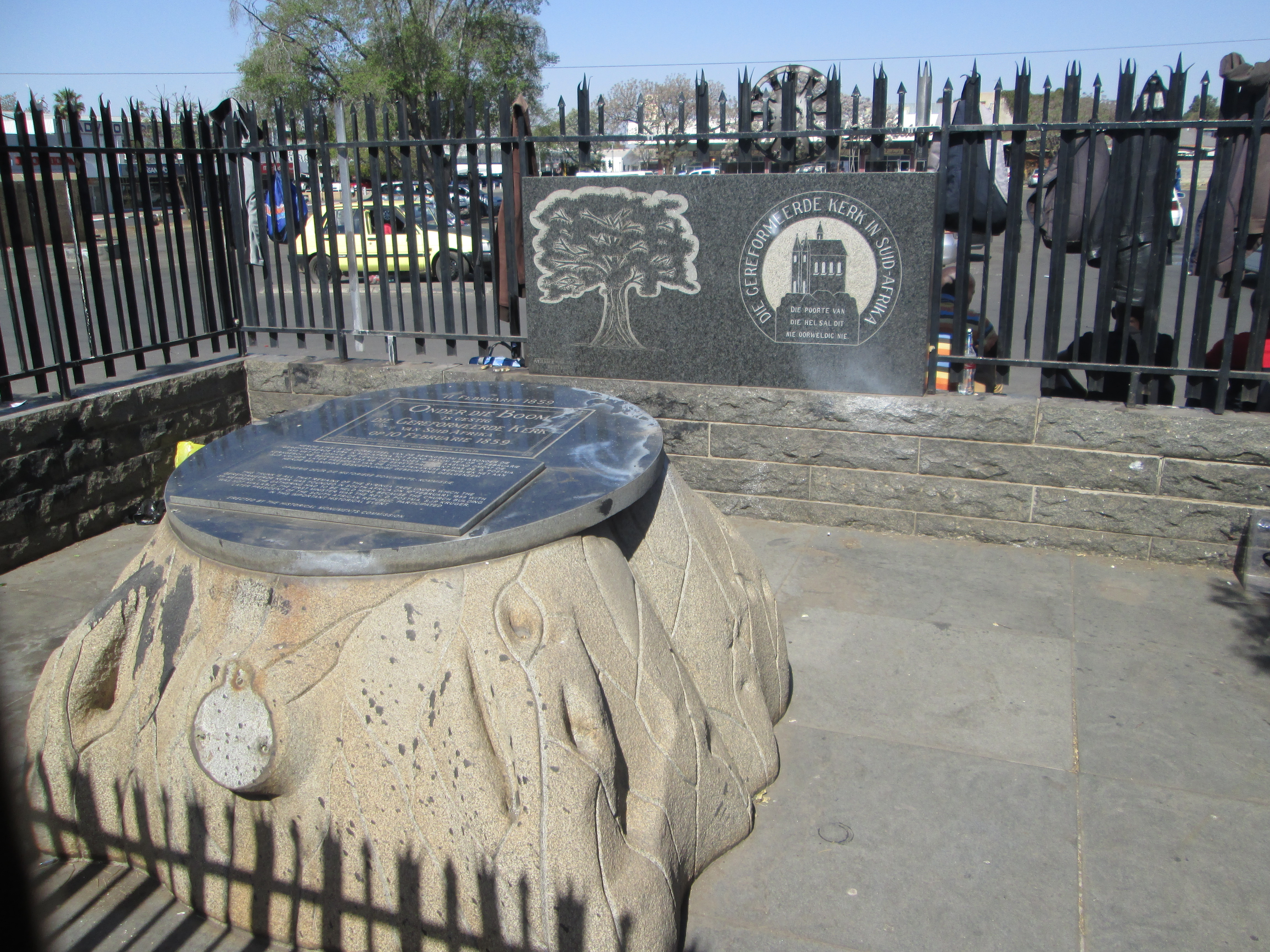 Syringa Tree Monument, Church Street, Rustenburg This media shows a South African Protected Site with SAHRA file reference 9/2/263/0016.